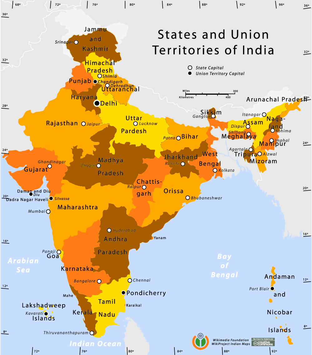 State and Union Territories map of India